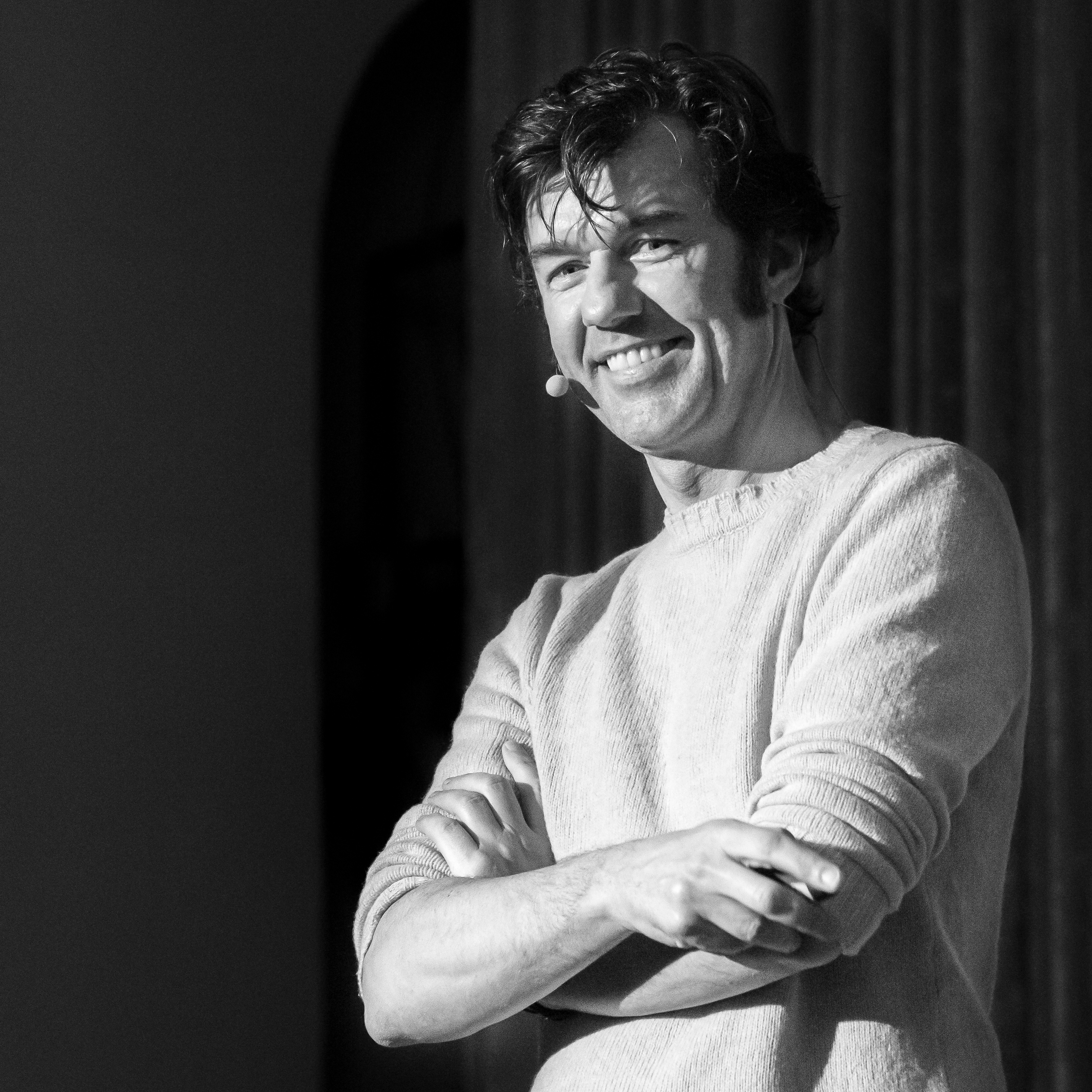 Stefan Sagmeister at the Beyond Tellerrand conference in Munich, 2018